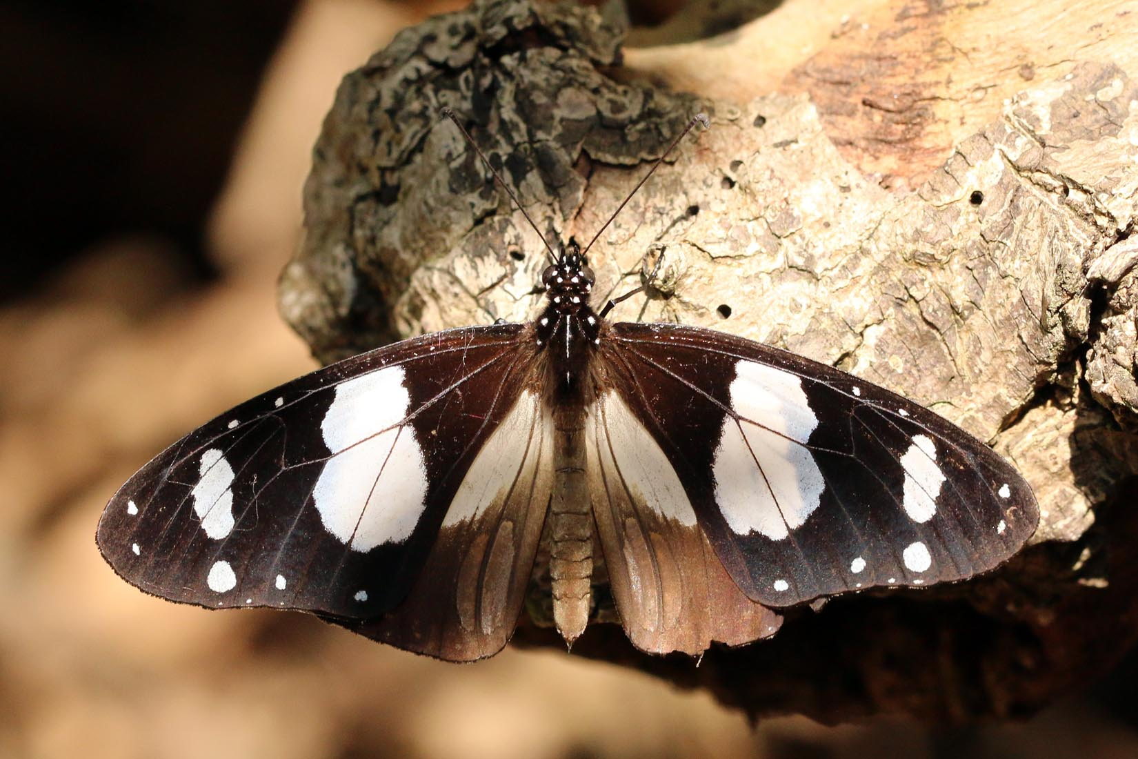 Novice butterfly (Amauris ochlea) male, Mabibi, KwaZulu Natal, South Africa